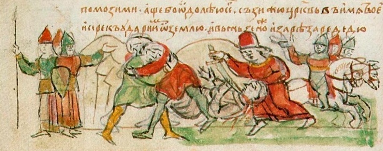 After struggling Mstislav kills Rededi in sight Circassians (1022).